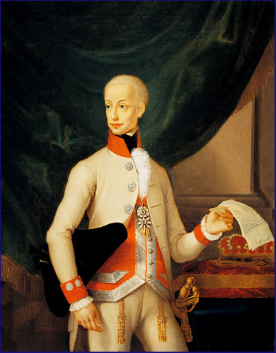 Ferdinand III., Archduke of Austria and Grand Duke of Tuscany (1769-1824), son of Leopold II., Holy Roman Emperor and Grand Duke of Tuscany, and Infanta Ludovica of Spain, husband of Luisa of Naples and Sicily and Maria Ferdinanda of Saxony, 18th century